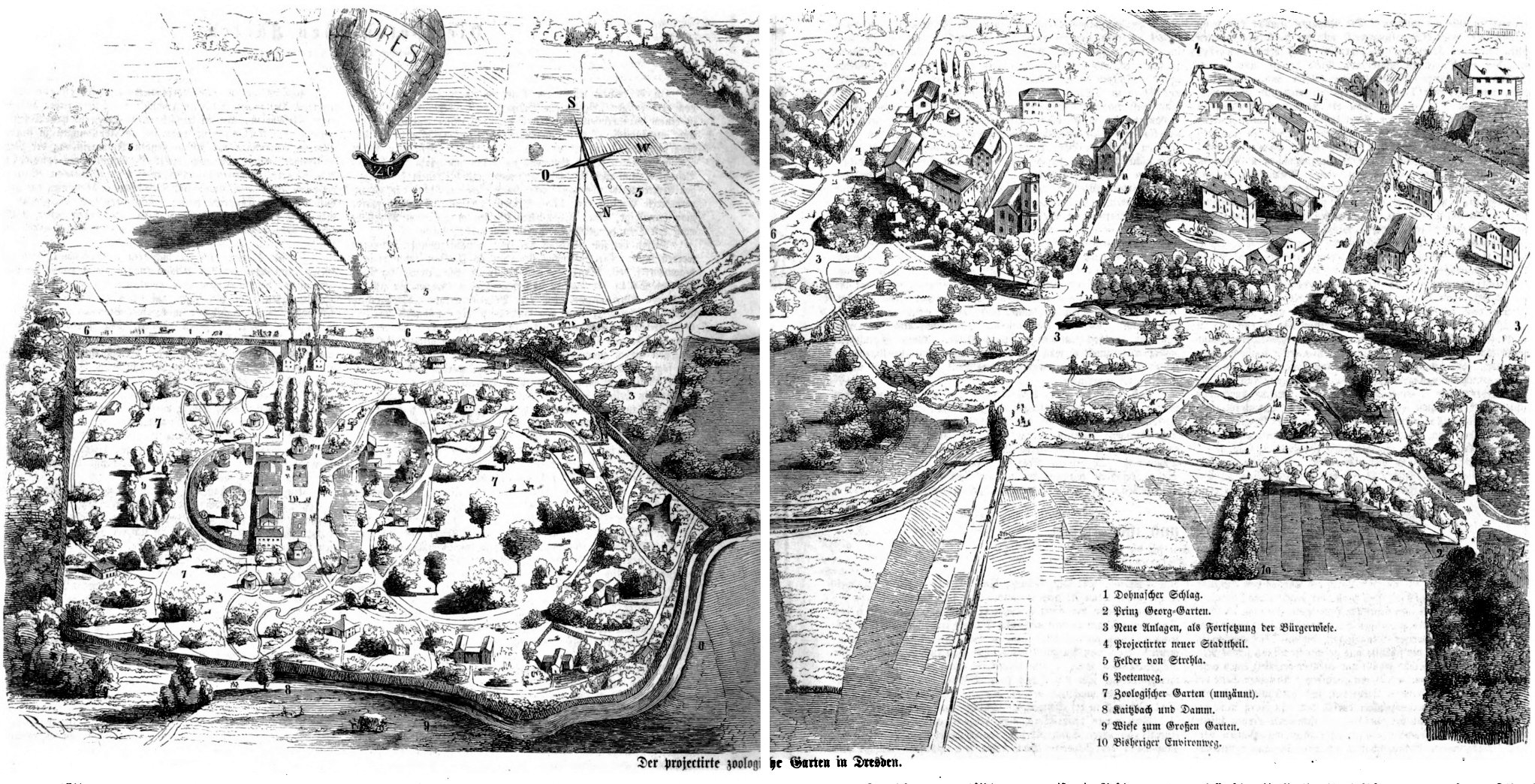 no caption